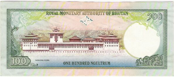 From Bhutan.